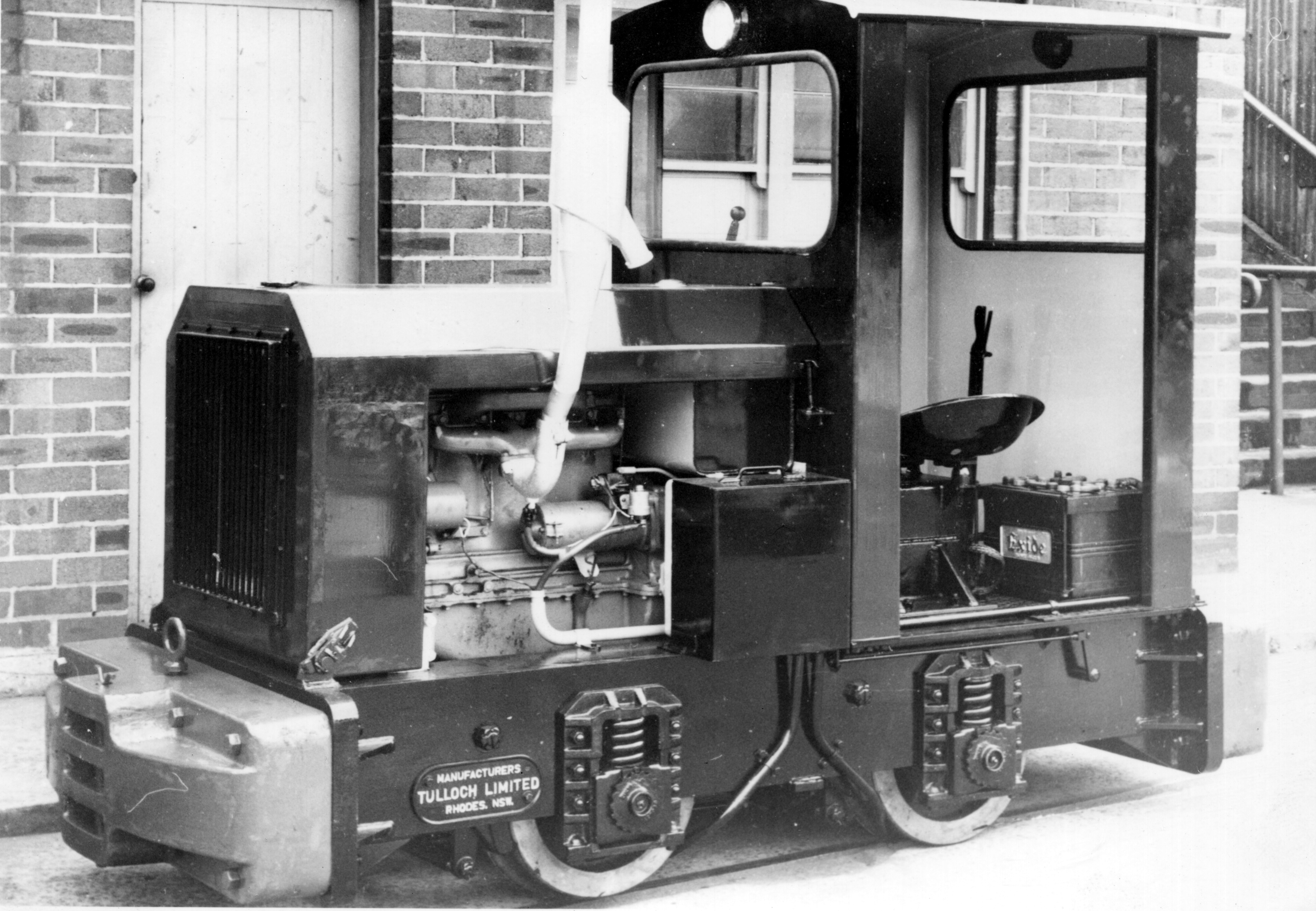 Builders photo of the Lake Margaret tramway Tulloch locomotive. Ted owned this loco for many years. Ted Lidster collection